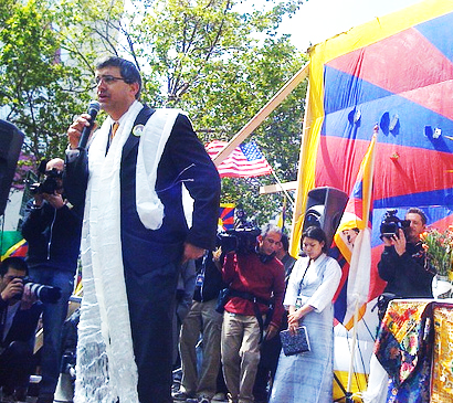 Chris Daly speaking at a Free Tibet rally in San Francisco